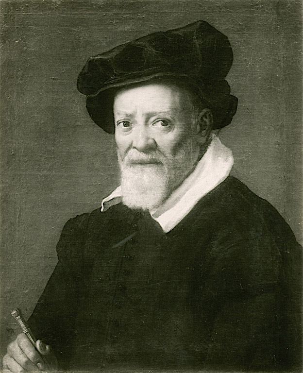 'Vincenzo Scamozzi', by Domenichino (early 17th century), a painting possibly destroyed in the Friedrichshain flak tower fire in Berlin, at the end of the Second World War (May 1945). The painting belonged to the collections of the Kaiser-Friedrich-Museum, now the Bode-Museum of Berlin.